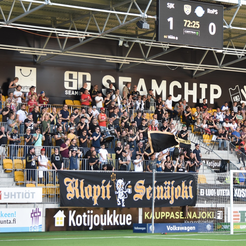 Association football fans of Seinäjoen Jalkapallokerho. (SJK vs. RoPS 9th July.2018)